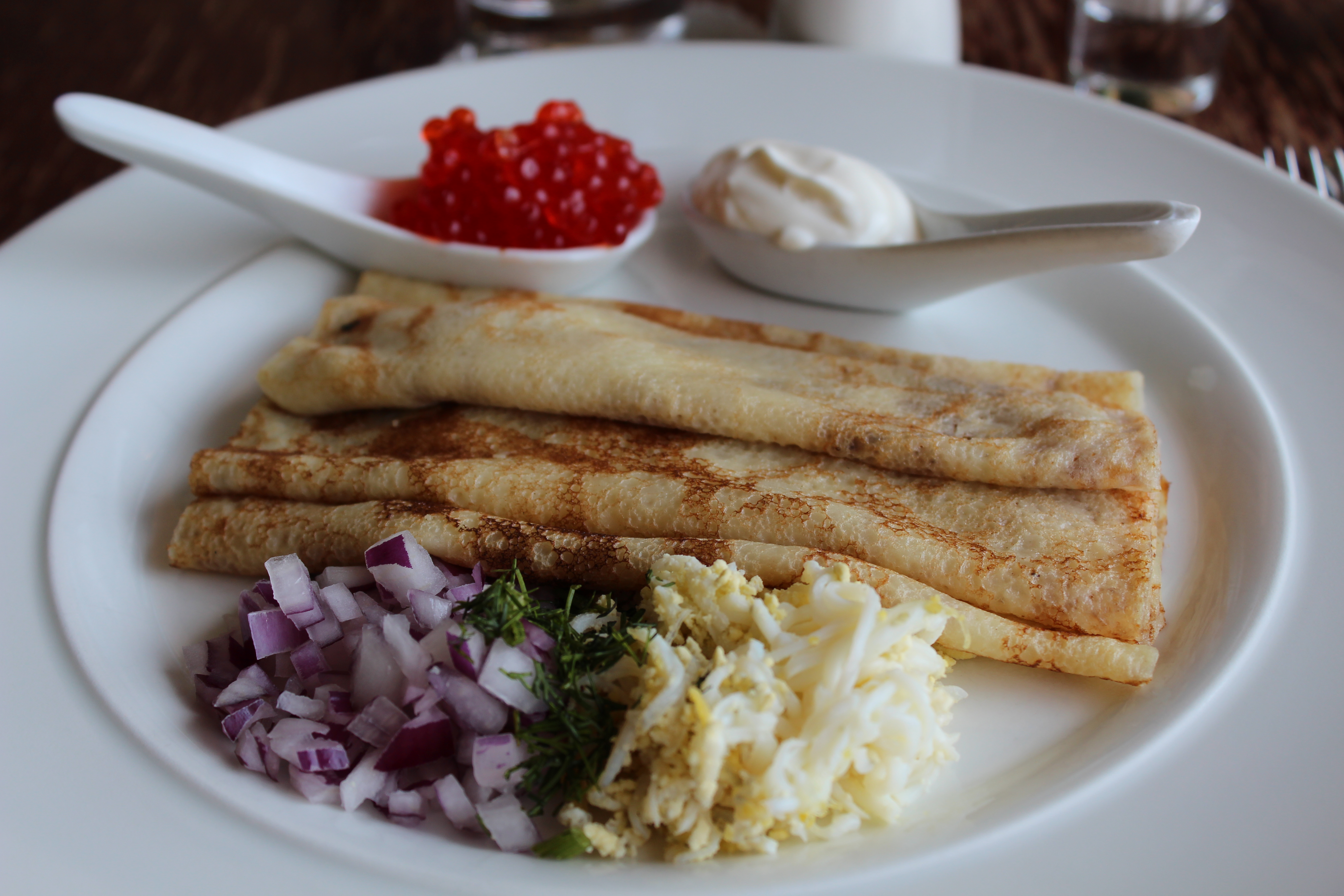 Singer Café at Singer House, Saint Petersburg.